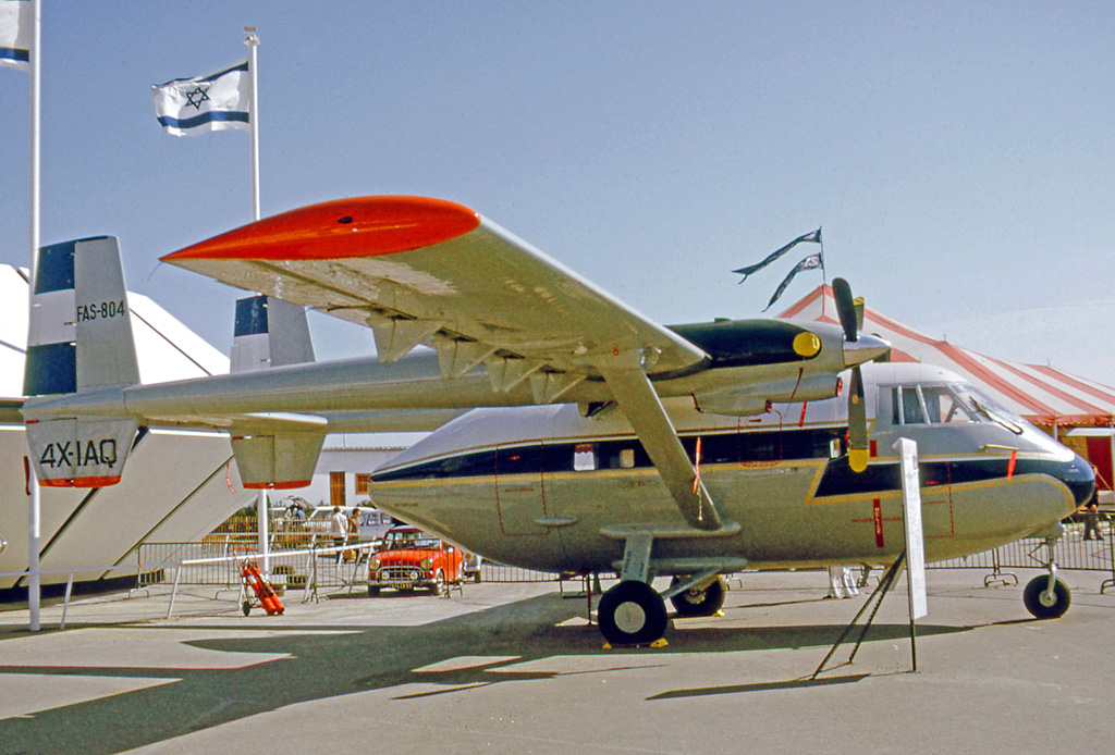 IAI Arava 201 FAS-804 of the Salvadorean Air Force at the 1975 Paris Air Show